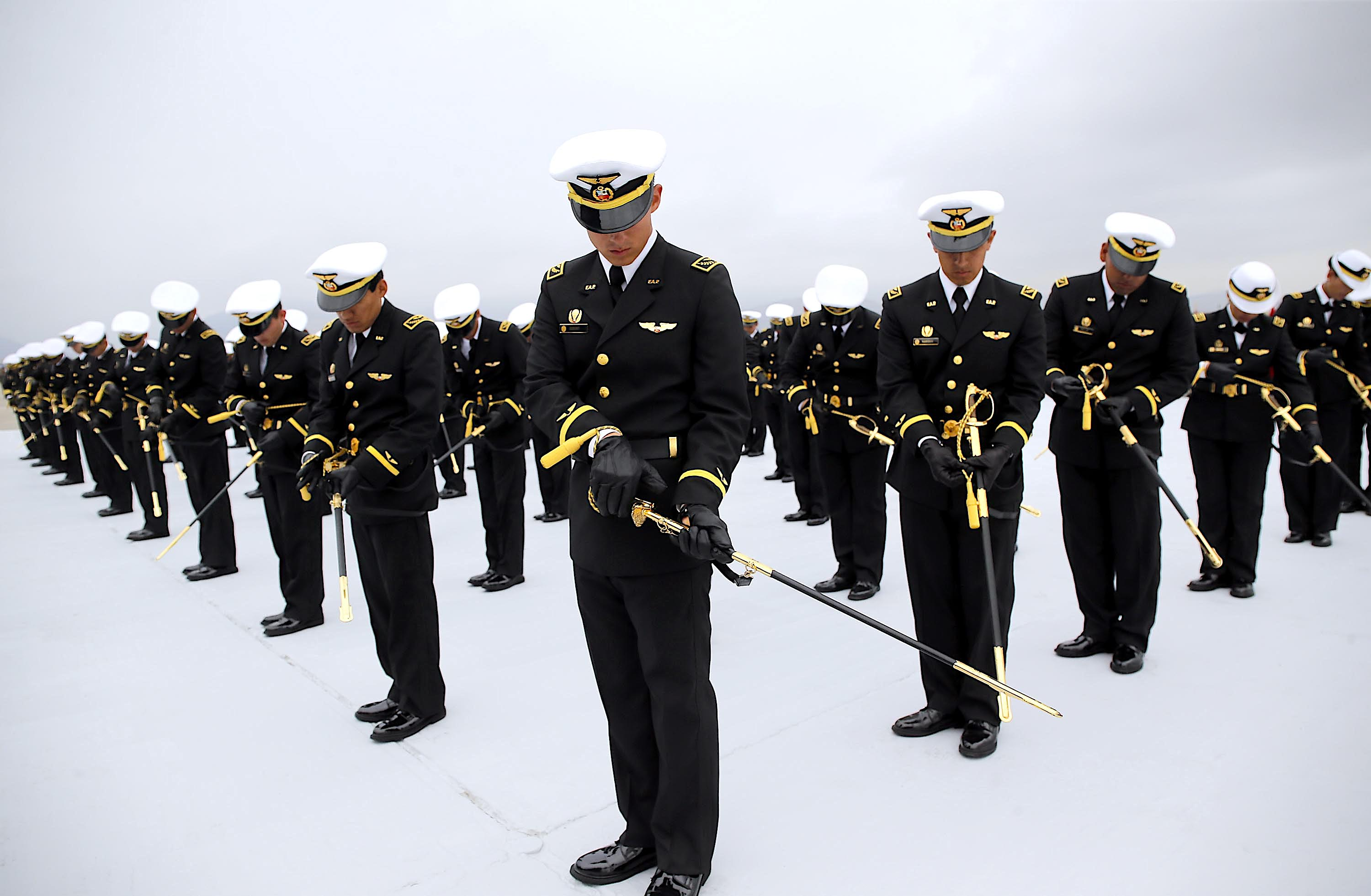 Peruvian Air Force cadets during their graduation ceremony.